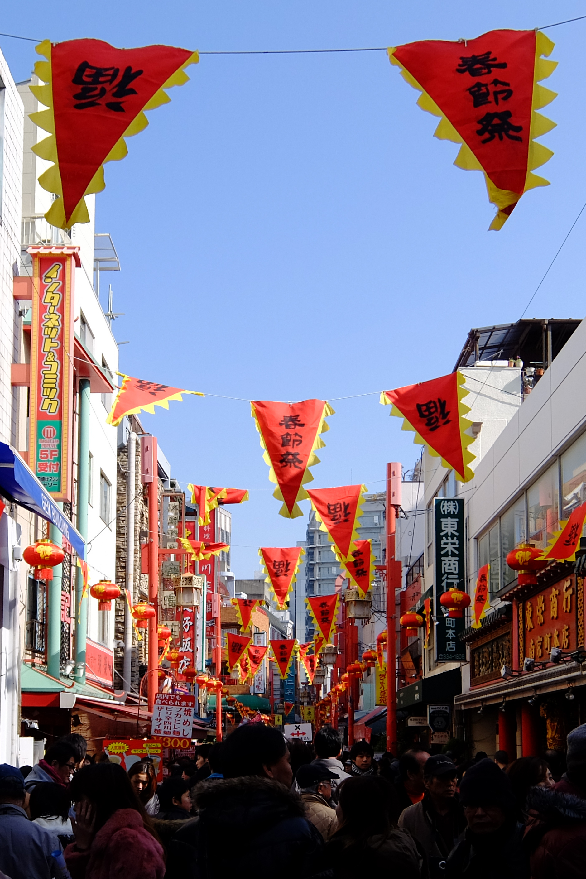 Chinese New Year 2014 at Kobe Chinatown in Kobe, Hyogo prefecture, Japan.